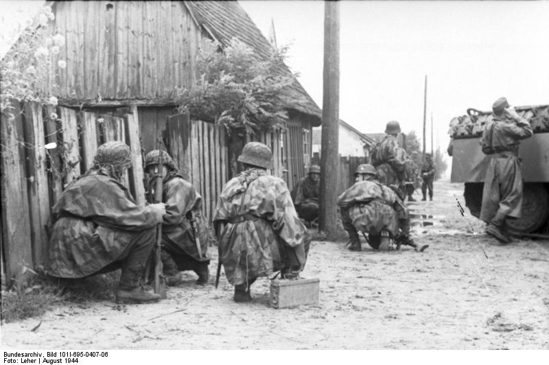 Warsaw Uprising